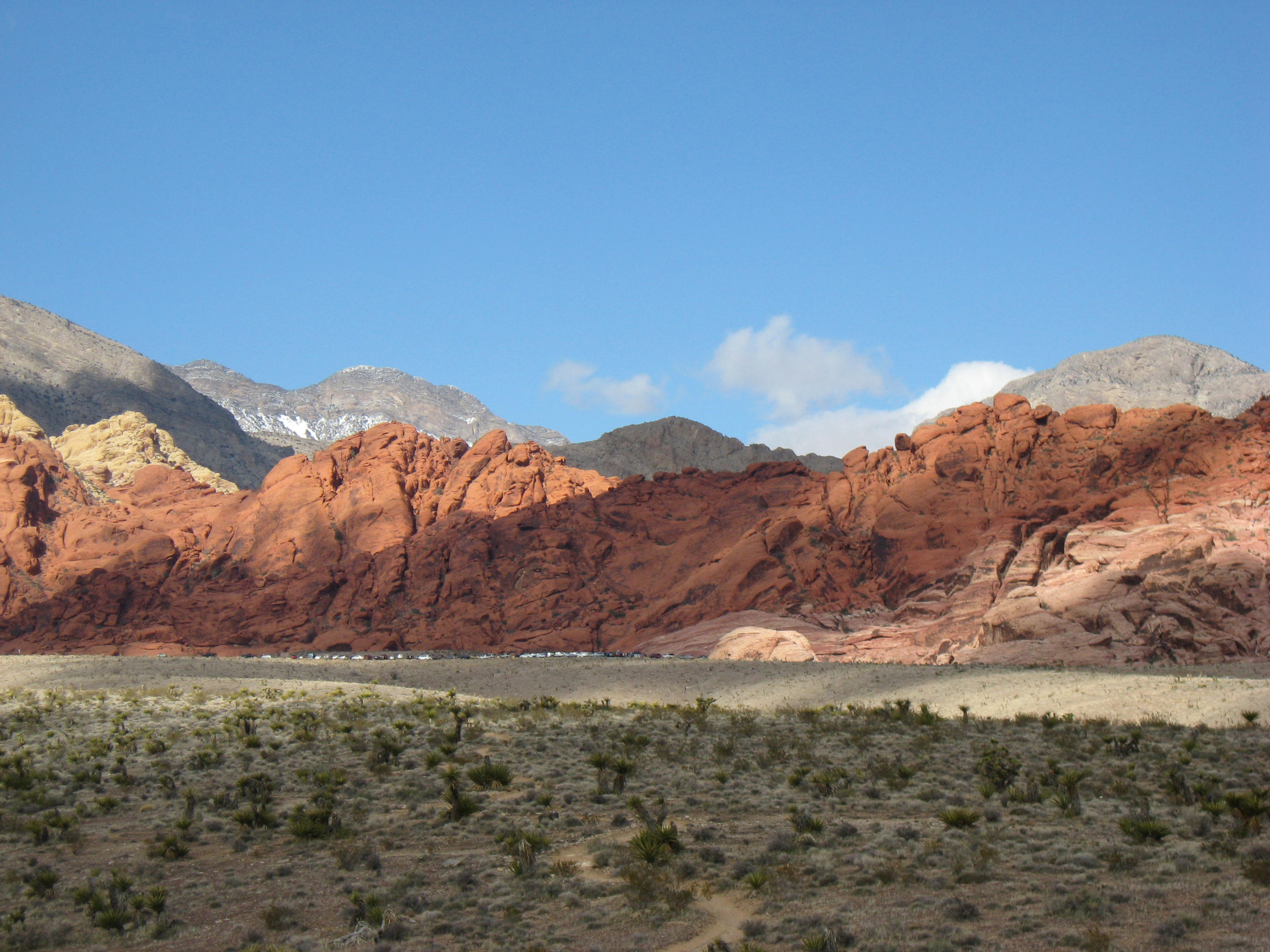 Red Rock Canyon National Conservation Area, Nevada, U.S.A.